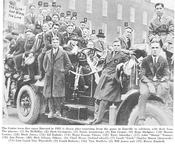 The 1921 Centre Colonels football team after defeating Harvard